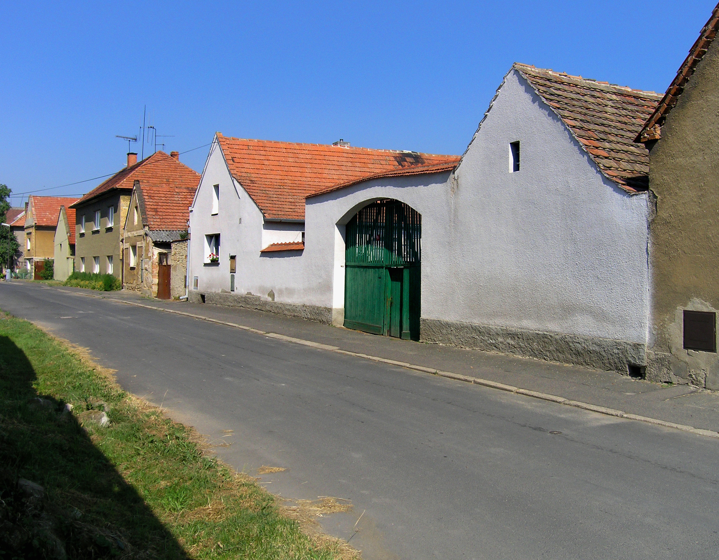 Old farm in Martiněves, Czech Republic